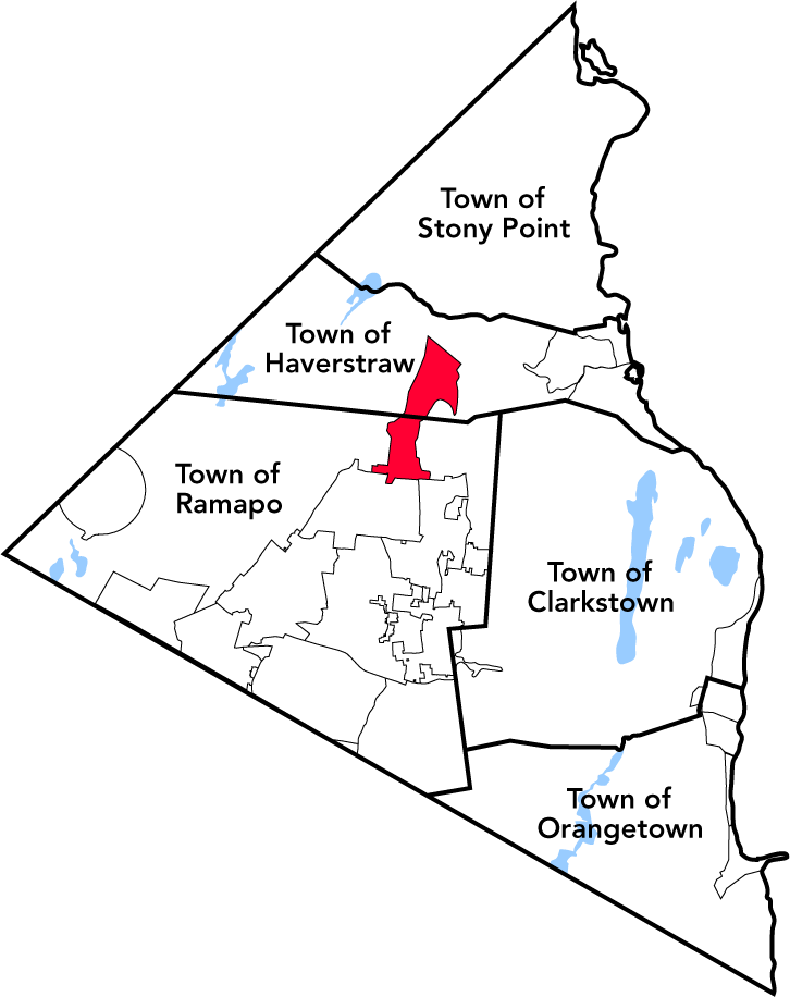 I made this file. :: Salvo (talk) 09:29, 20 February 2006 (UTC)